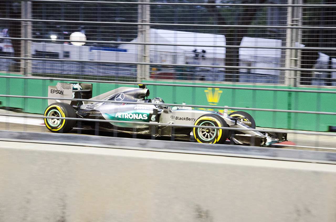 Nico Rosberg at the 2015 Singapore Grand Prix